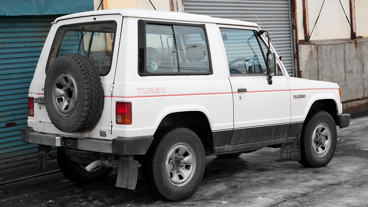 First generation Mitsubishi Pajero Metaltop Van 2.5D Turbo XL ( L044GV )